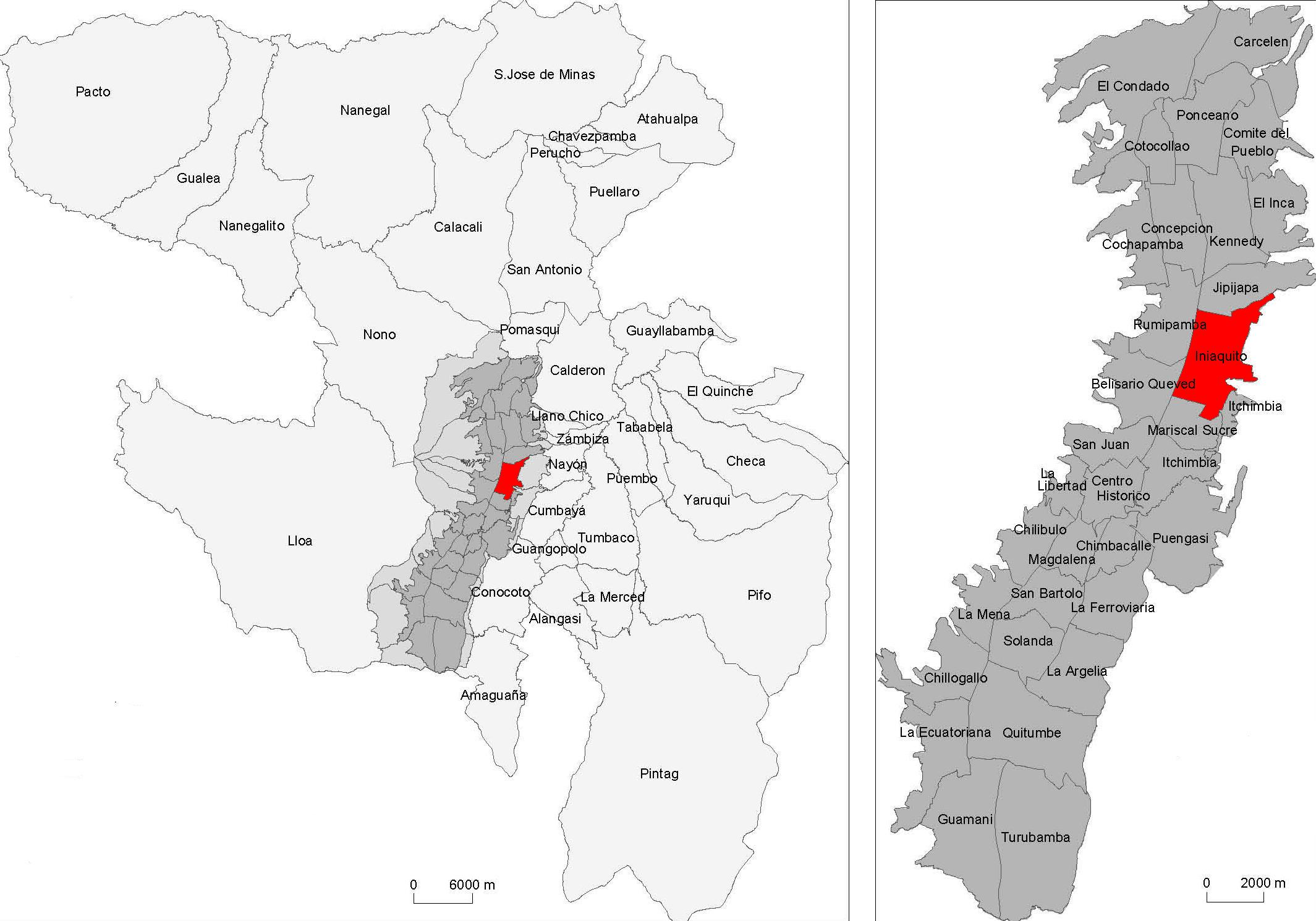 Map of parishes of Quito (2009)